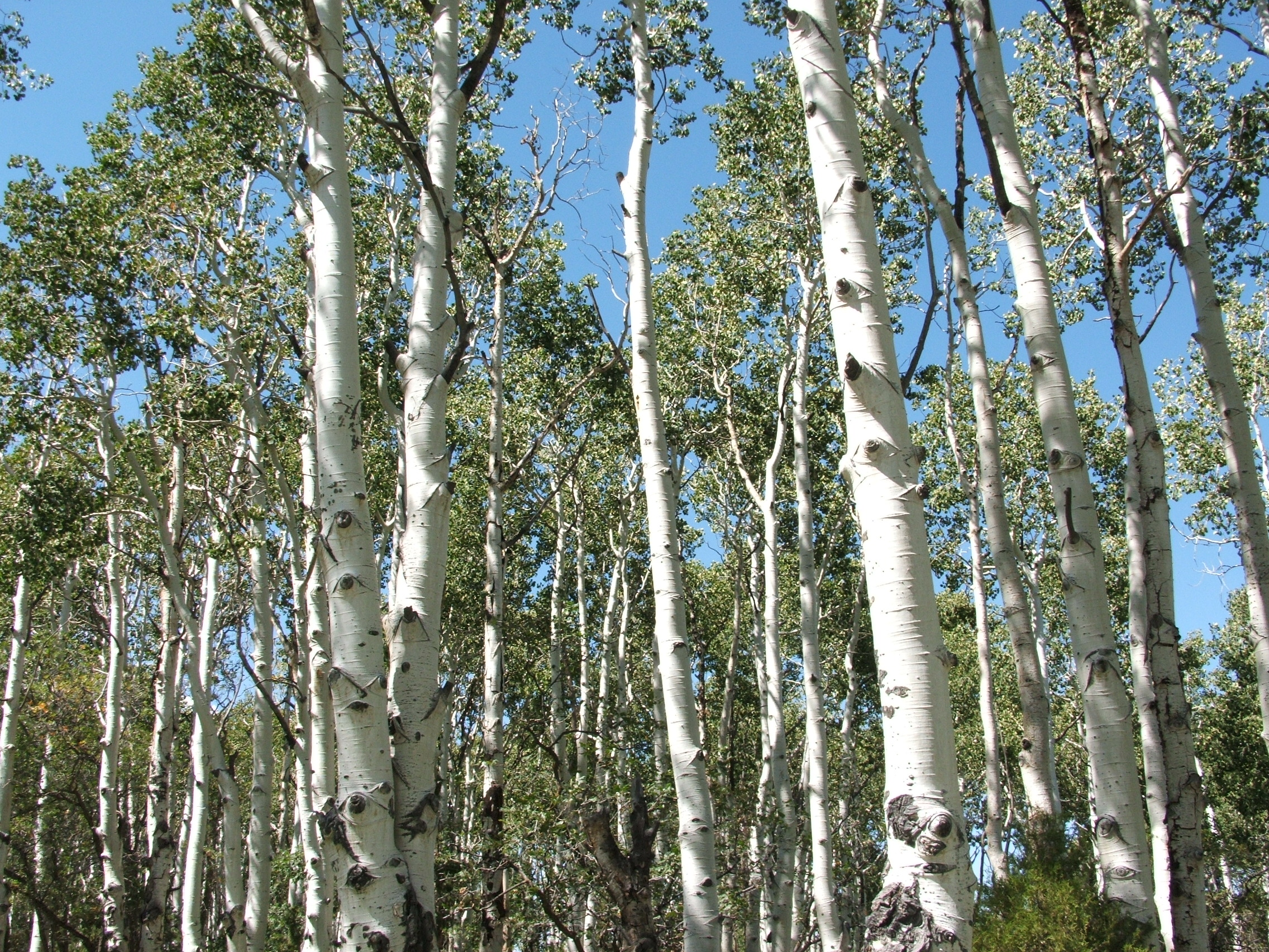 Populus tremuloides - Quaking Aspen forest, in Colorado.